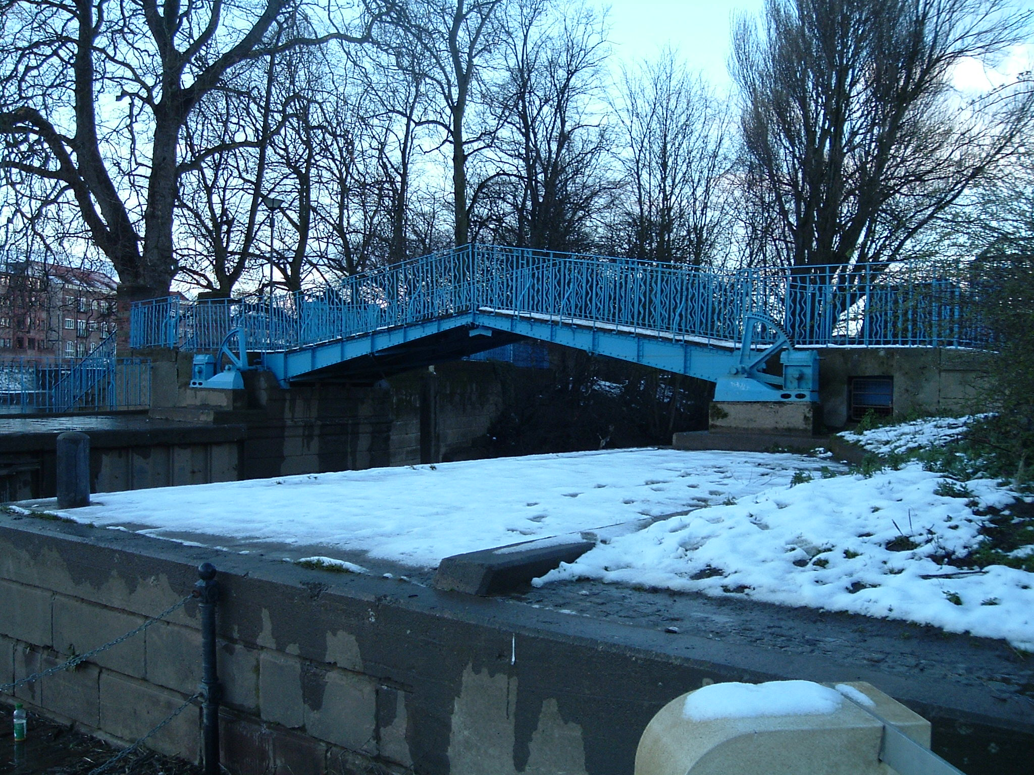 Blue Bridge, where the Ouse meets the Foss, York